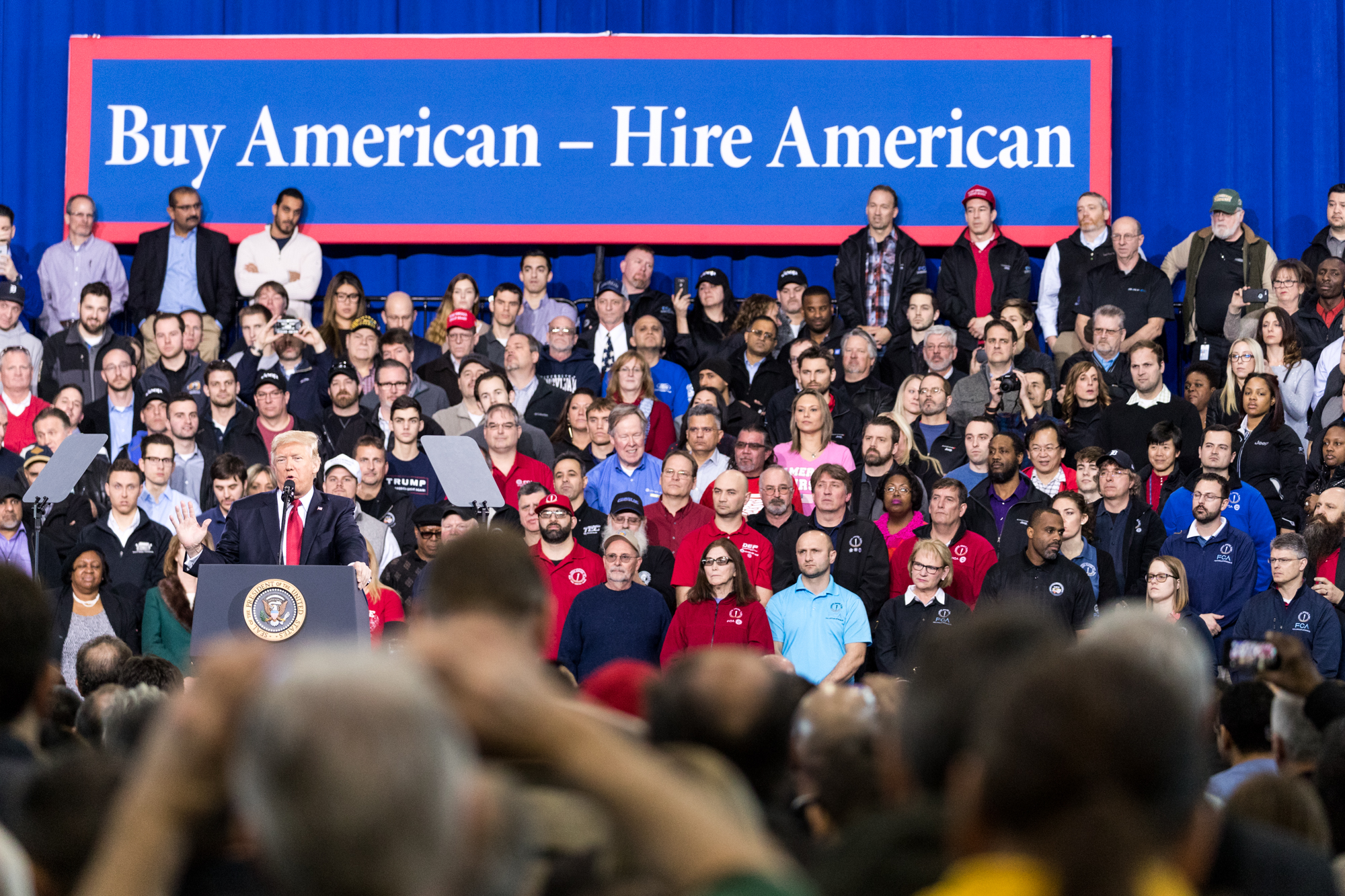 President Donald Trump delivers remarks on Wednesday, March 15, 2017, at the American Center for Mobility in Ypsilanti, Michigan. (Official White House Photo by Shealah Craighead)